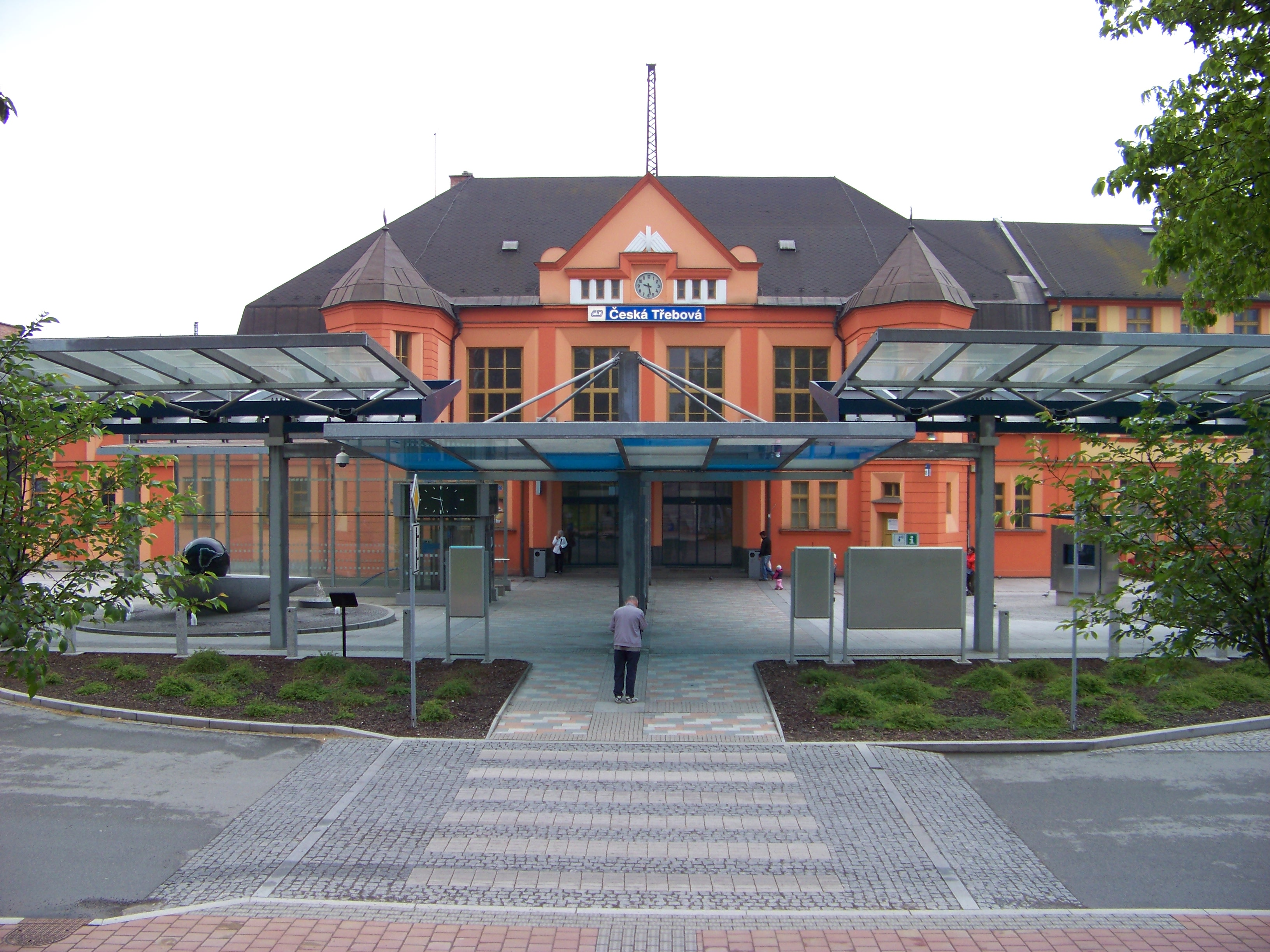 Česká Třebová, Ústí nad Orlicí District, Pardubice Region. Jan Perner Square, a train station.